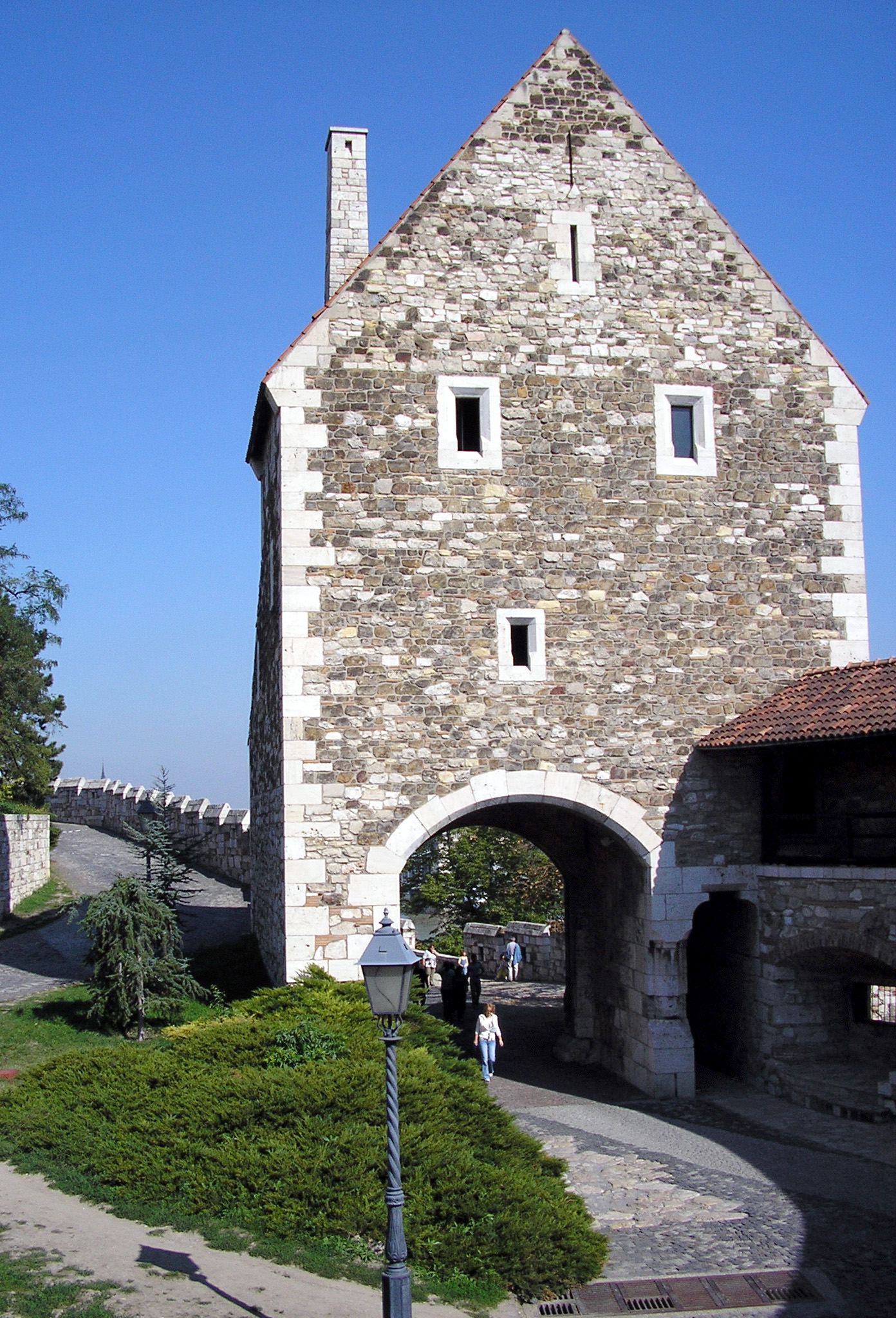 Buda Castle (Budapest), (barbacane)